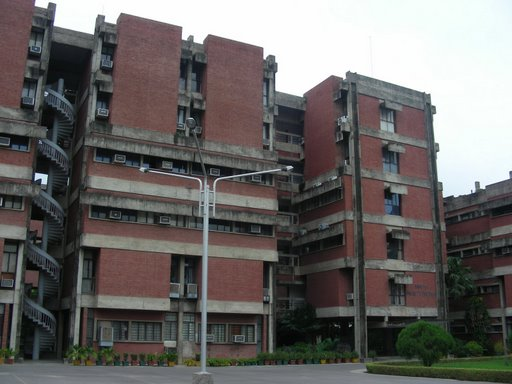 IIT Kanpur Faculty Building